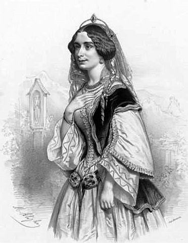 French opera singer Delphine Ugalde (1829-1910) as Beatrix in Les Monténégrins by Armand Limnander de Nieuwenhove (1814-1892). Portrait by Marie-Alexandre Alophe (1812-1883).